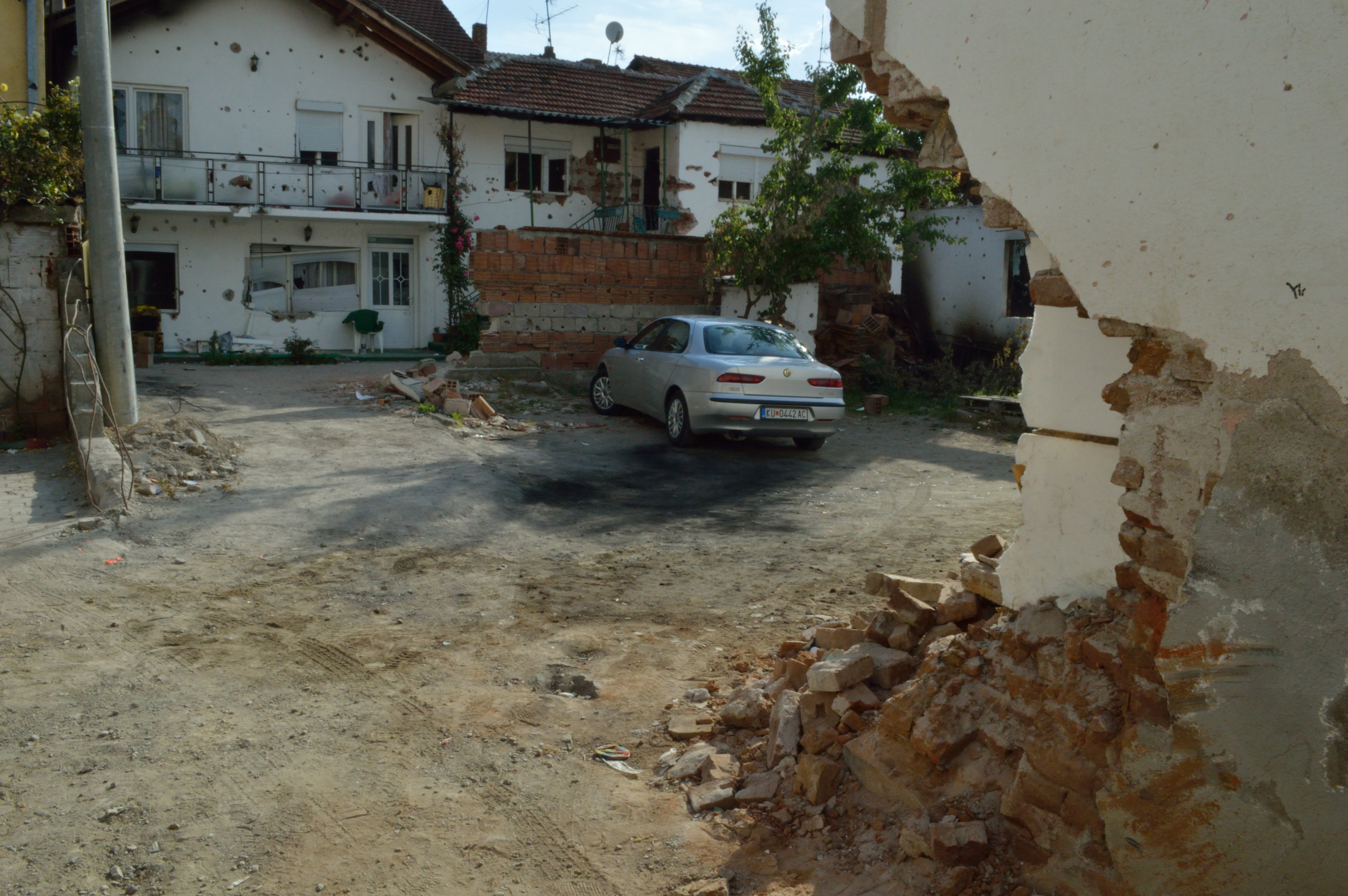 Kumanovo clashes in May 2015